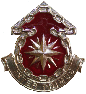 SADF Special Forces Supply Unit absorbed into 1 Maint Unit 1990